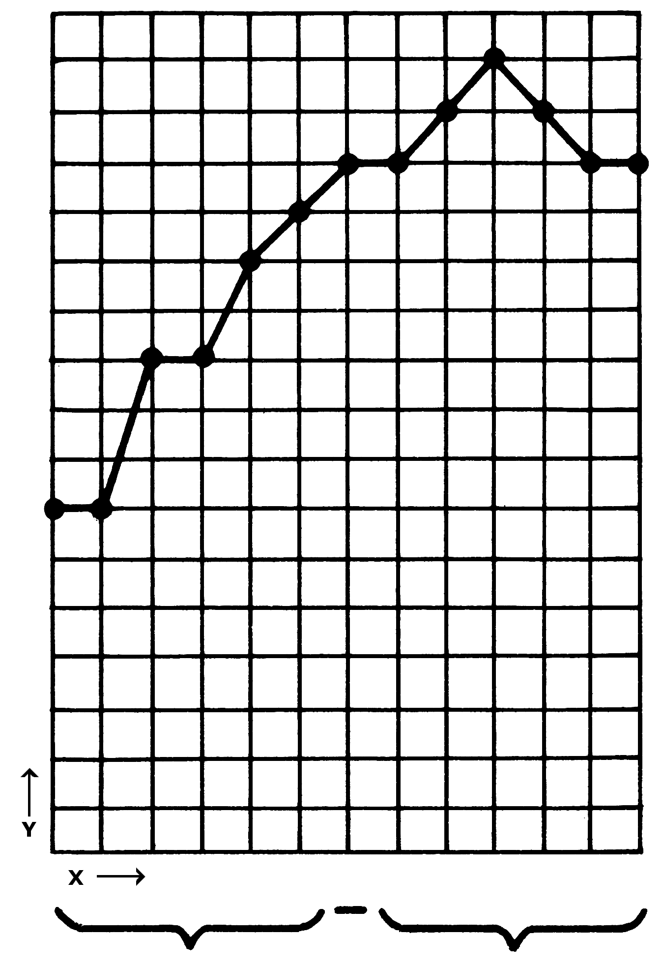 Graph